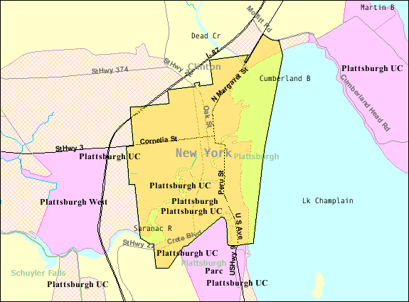 Map of Plattsburgh from U.S. Census website.